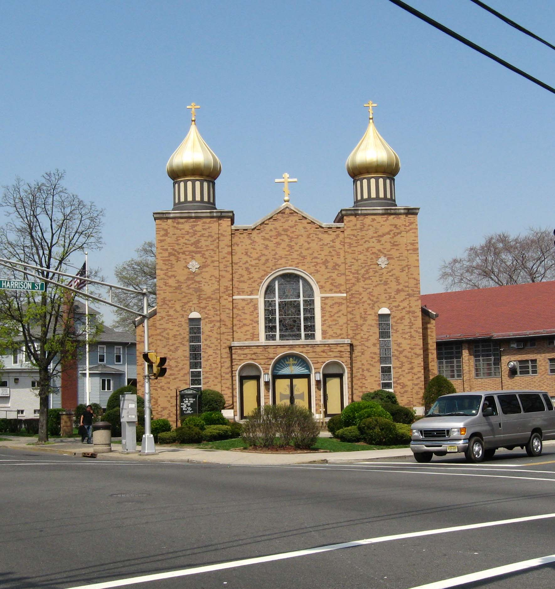 Russian Orthodox Church on Lexington Avenue in Passaic, NJ on a sunny early afternoon in early spring.